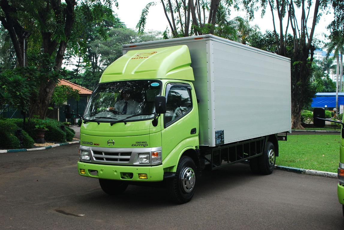 Hino Dutro 130MD-L Xtreme Box WU342.